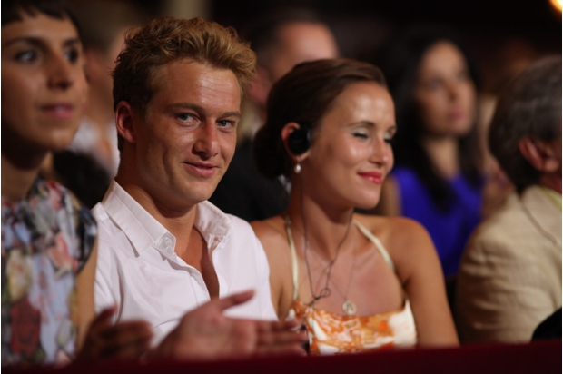 Odessa International Film Festival 2012/ Alexander Fehling